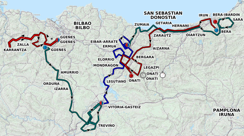 Route Vuelta al Pais Vasco 2012